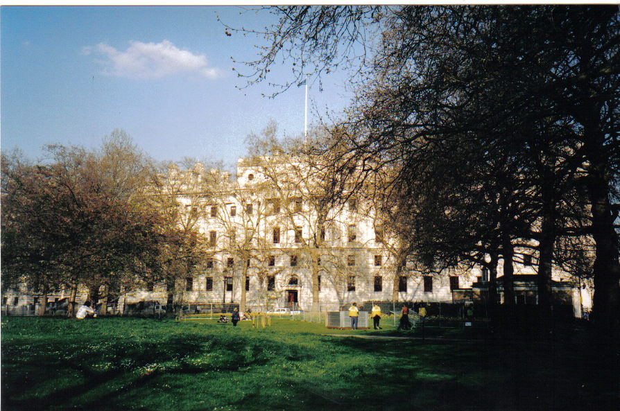 A winter scene of Her Majesty's Treasury's London headquarters, from St. James' Park. (C) Gerry Lynch, 2004.